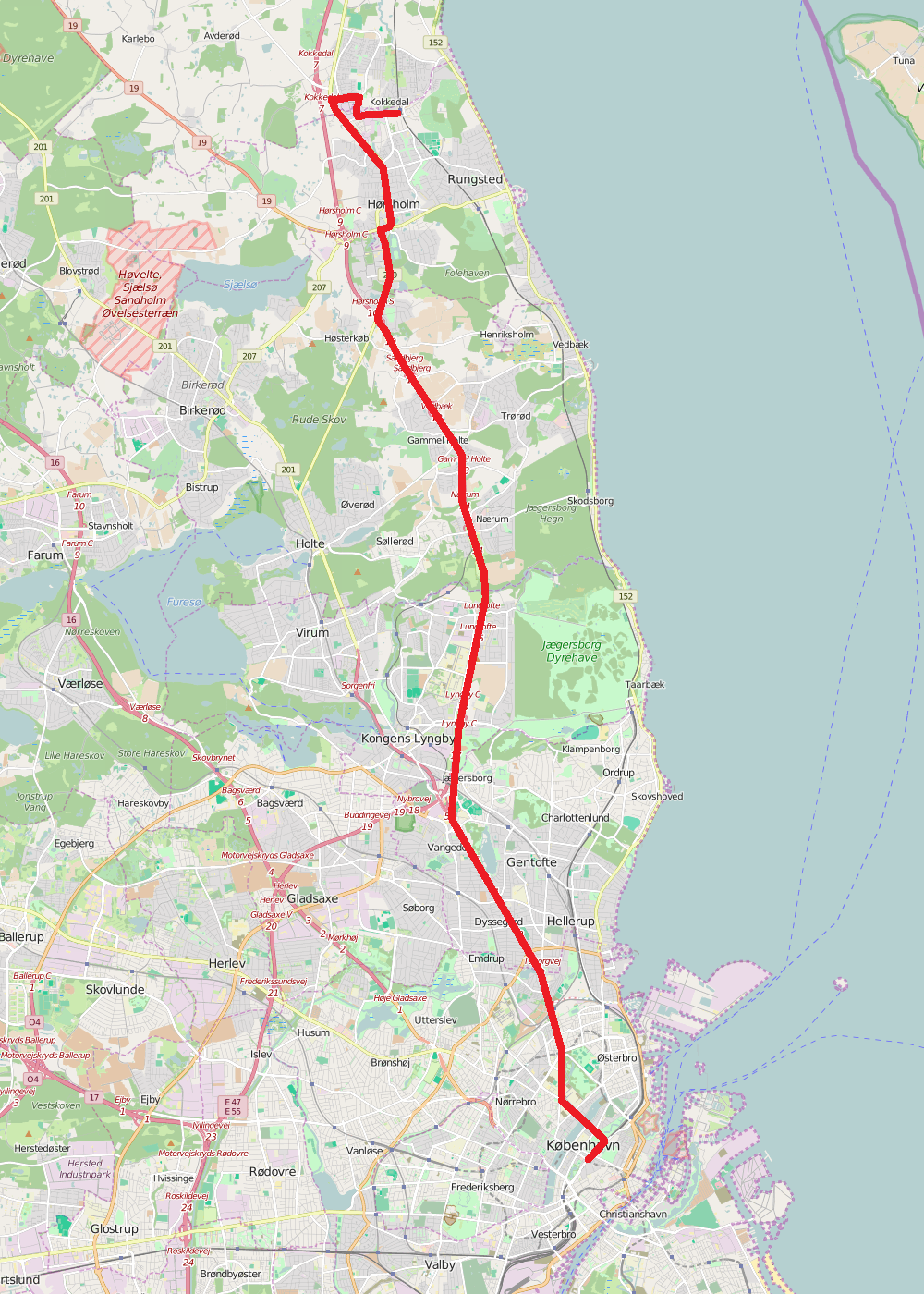 Map of Copenhagen bus line 150S between Kokkedal Station and Nørreport Station as of 3 January 2016. This map may be incomplete, and may contain errors. Don't rely solely on it for navigation.